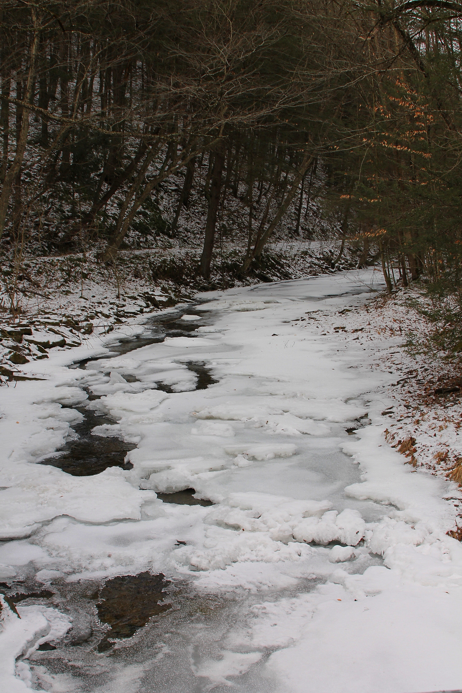 West Branch Run in wintertime